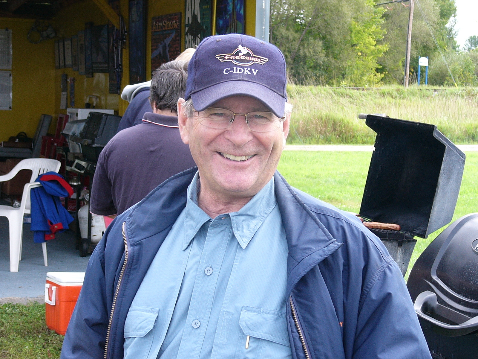 I took this photo of Maurice Baril at the Carleton Place Ontario Canada airport.